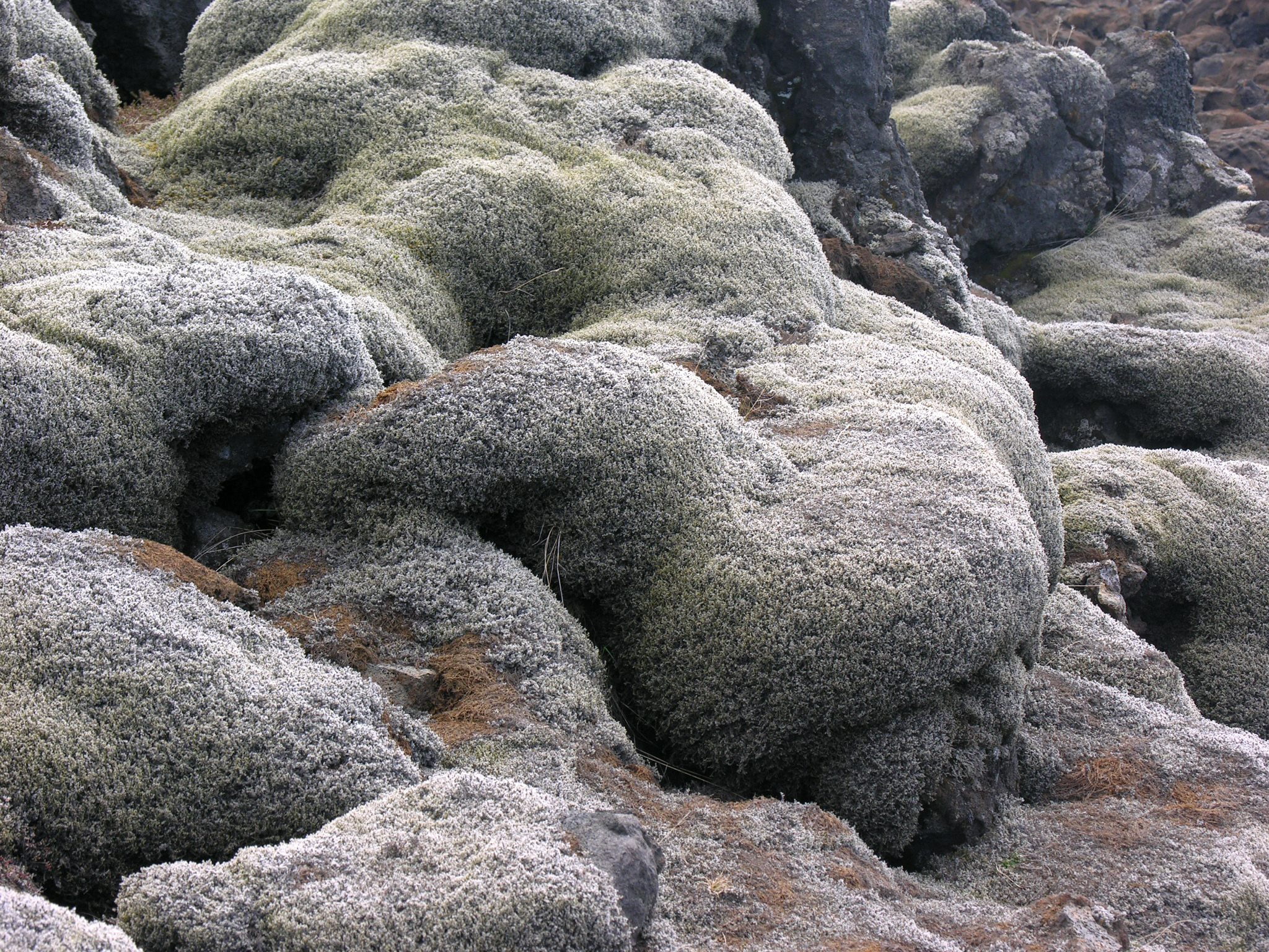 Iceland